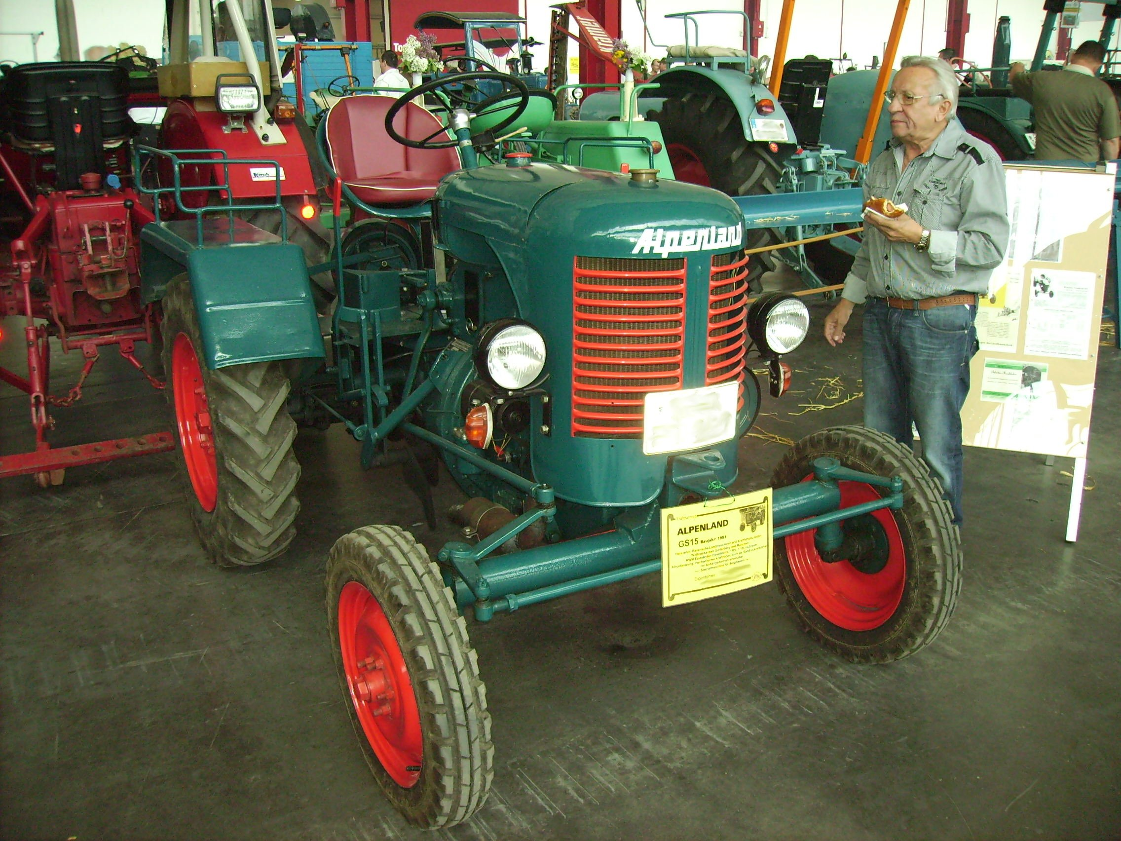 Alpenland GS 15, built 1951